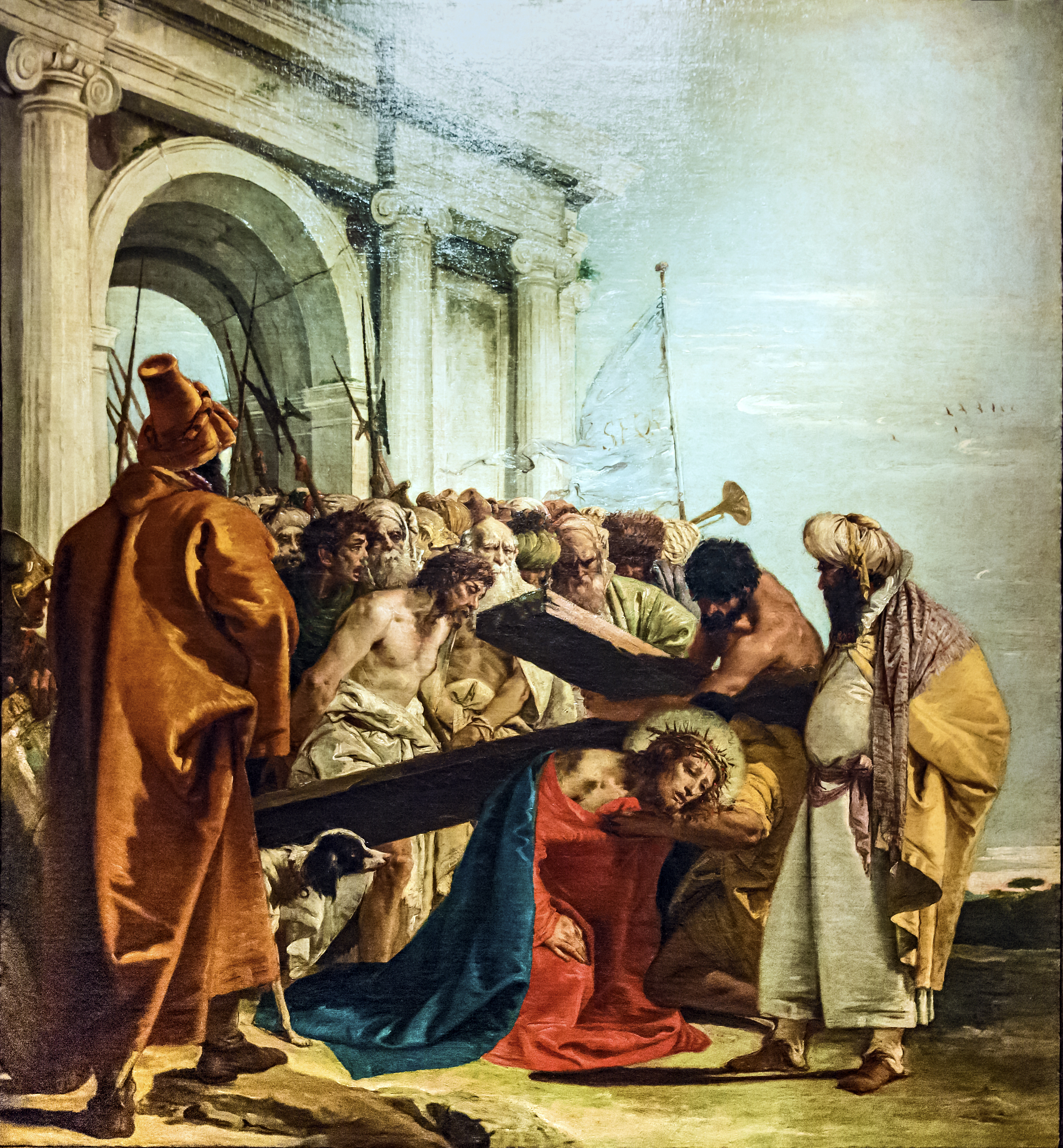 San Polo (church) - Oratory of the Crucifix - VIA CRUCIS III - Jesus falls the first time by Giandomenico Tiepolo. Oil on canvas (1745 -1749).